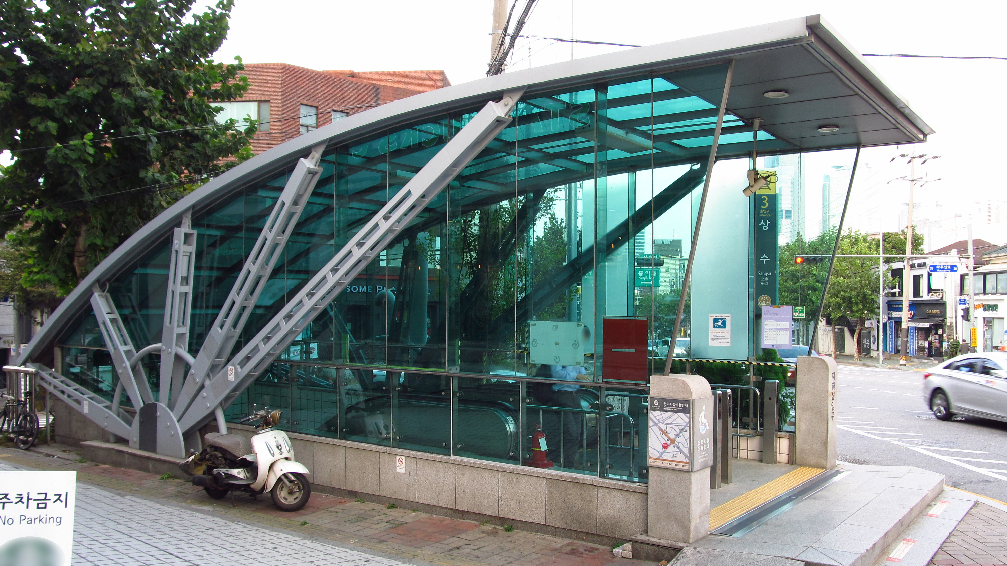 The no.3 entrance to Sangsu Station on the Seoul Metro Line 6 in Mapo-gu, Seoul, Republic of Korea(South Korea)